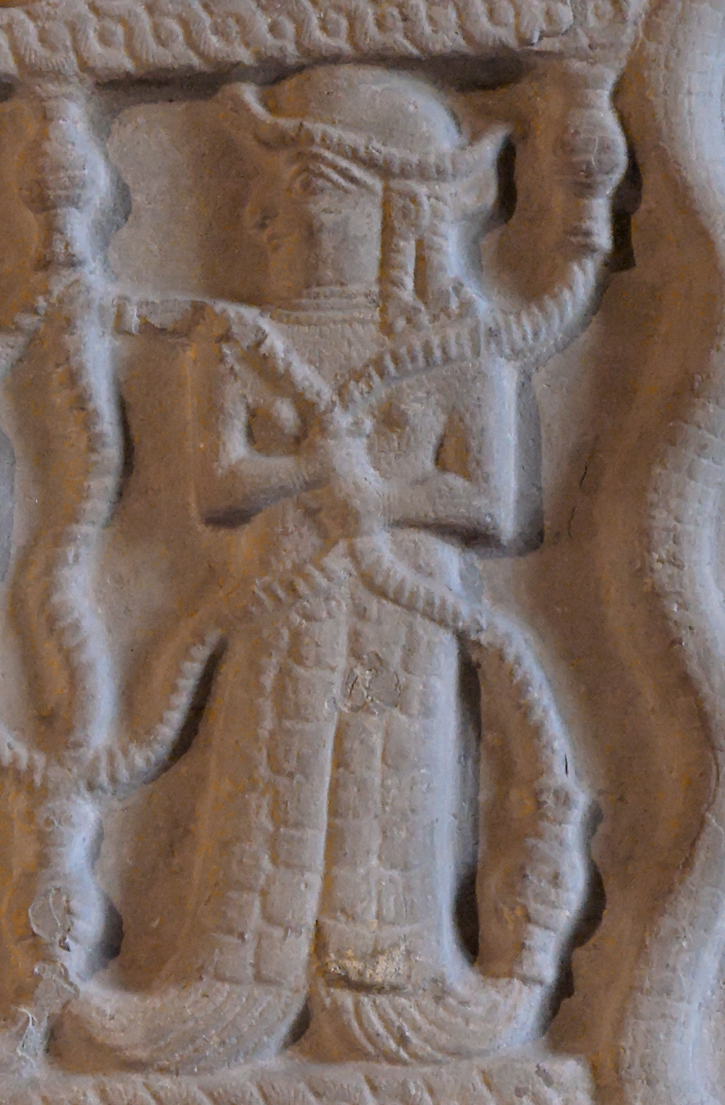 Stele of Untash Napirisha, king of Anshan and Susa. Sandstone, ca. 1340–1300 BC, brought from Tchoga Zanbil to Susa in the 12th century BC.